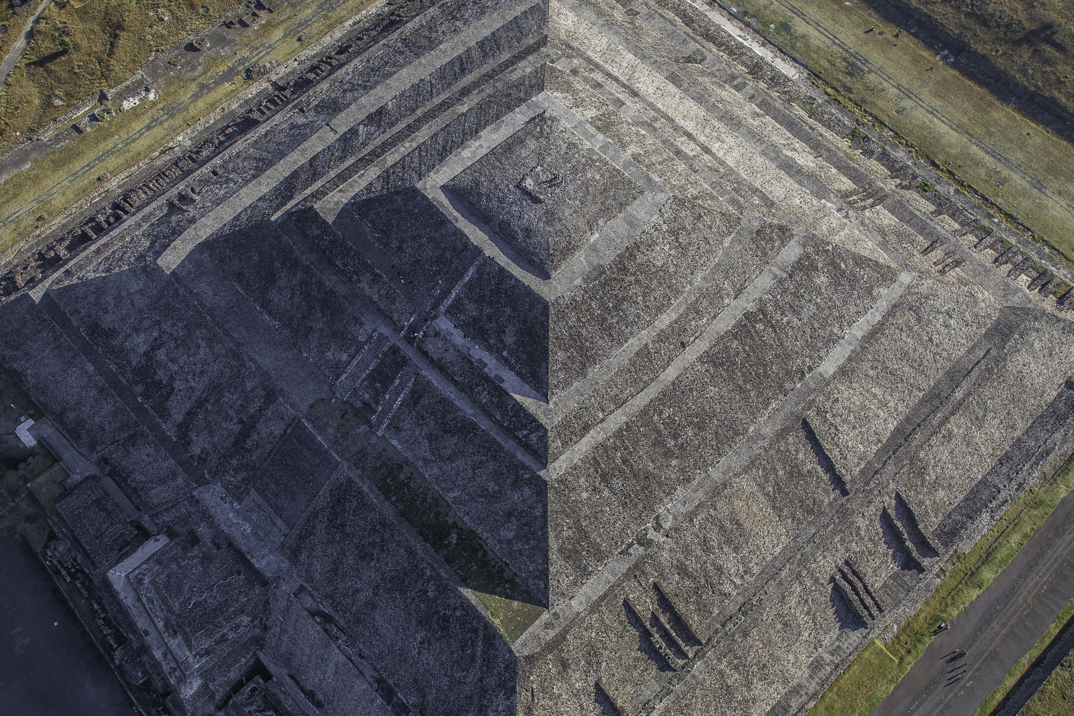 Aerial view of the Pyramid of the Sun, Teotihuacán. Built between 1st and 9th century A.C. San Juan Teotihuacán, State of Mexico, México.